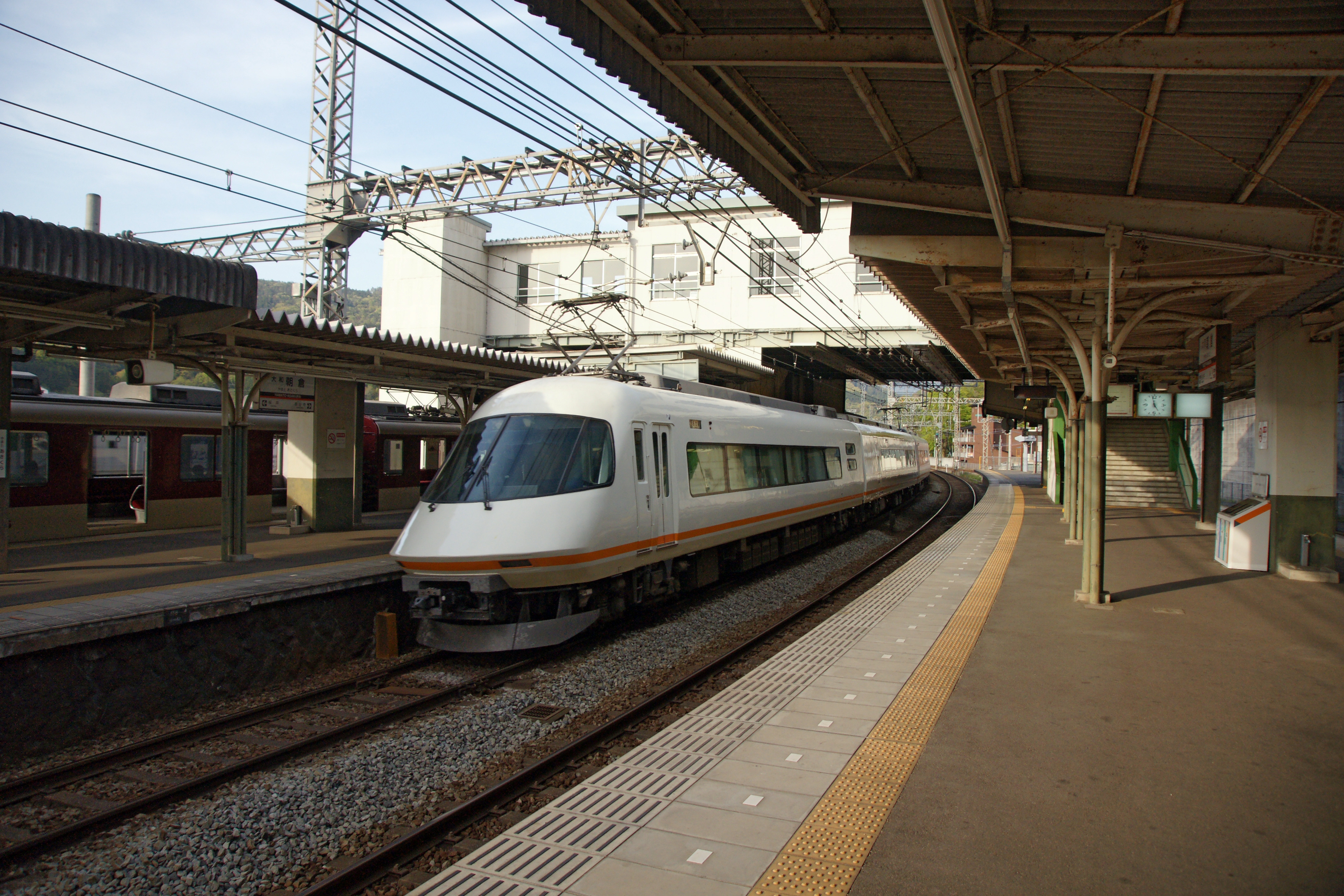 Yamato-asakura Station, Sakurai, Nara prefecture, Japan